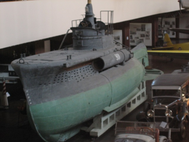 Mališan submarine in Zagreb museum originally the italian CB 20